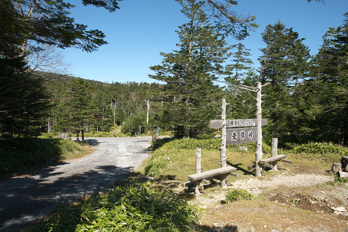 Mugikusa Pass, the highest point of Japanese National Route 299